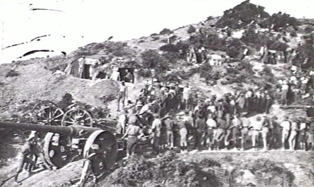 GALLIPOLI PENINSULA, TURKEY. 1915. SOLDIERS MANOEUVRING A 4.7 INCH NAVAL GUN INTO POSITION AT ANZAC. See also : File:Naval gun abandoned at Gallipoli at the AWM Aug 2012.JPG : The gun barrel today at the Australian War Memorial, Canberra File:4.7inchGunInEmplacementGallipoli.jpeg : The gun in its emplacement at Anzac, 1915 File:4.7 inch gun before being destroyed at Anzac Dec 1915 AWM P02226.028.jpg : The gun at Anzac just before being blown up, December 1915 File:Destroyed 4.7 inch gun at Anzac 1915 AWM P02226.029.jpg : Then gun barrel in position at Anzac after being blown up, December 1915